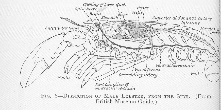 Dissection of Male Lobster, from the Side Subject: Lobsters--Anatomy, Homarus--Anatomy Tag: Shellfish